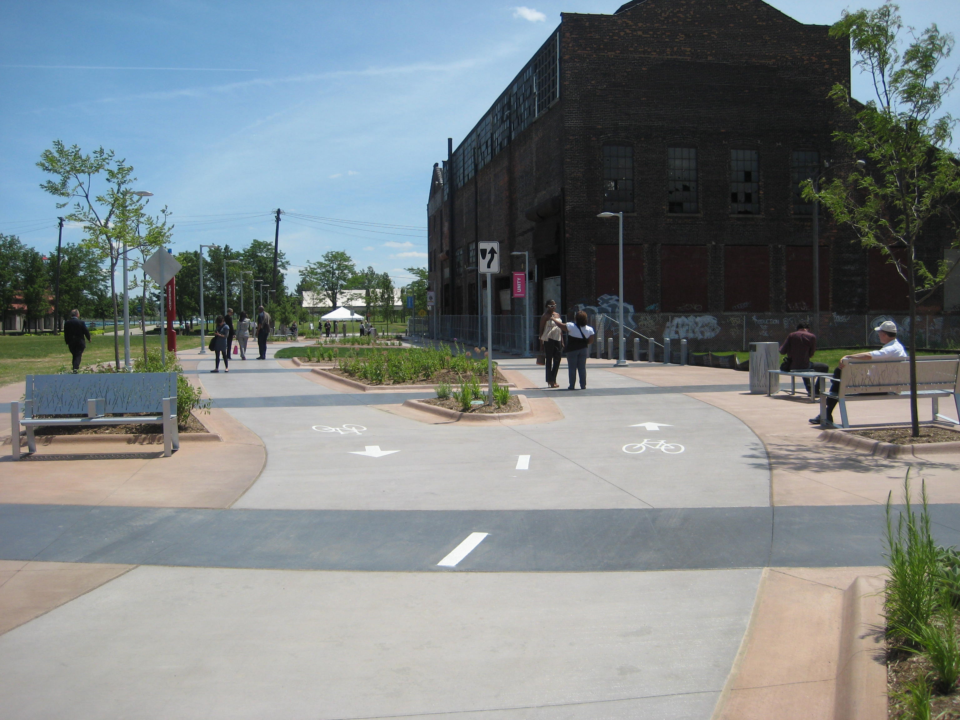 Dequindre Trail and Globe Trading Company Building, Detroit, Michigan